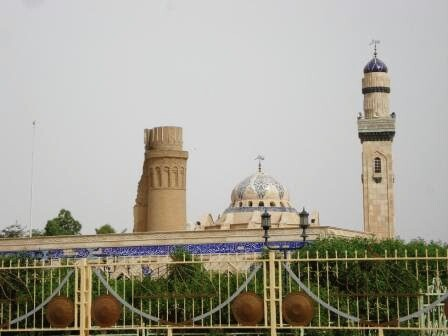 Imam Ali Bag Mosque in Ziyber City in Basra